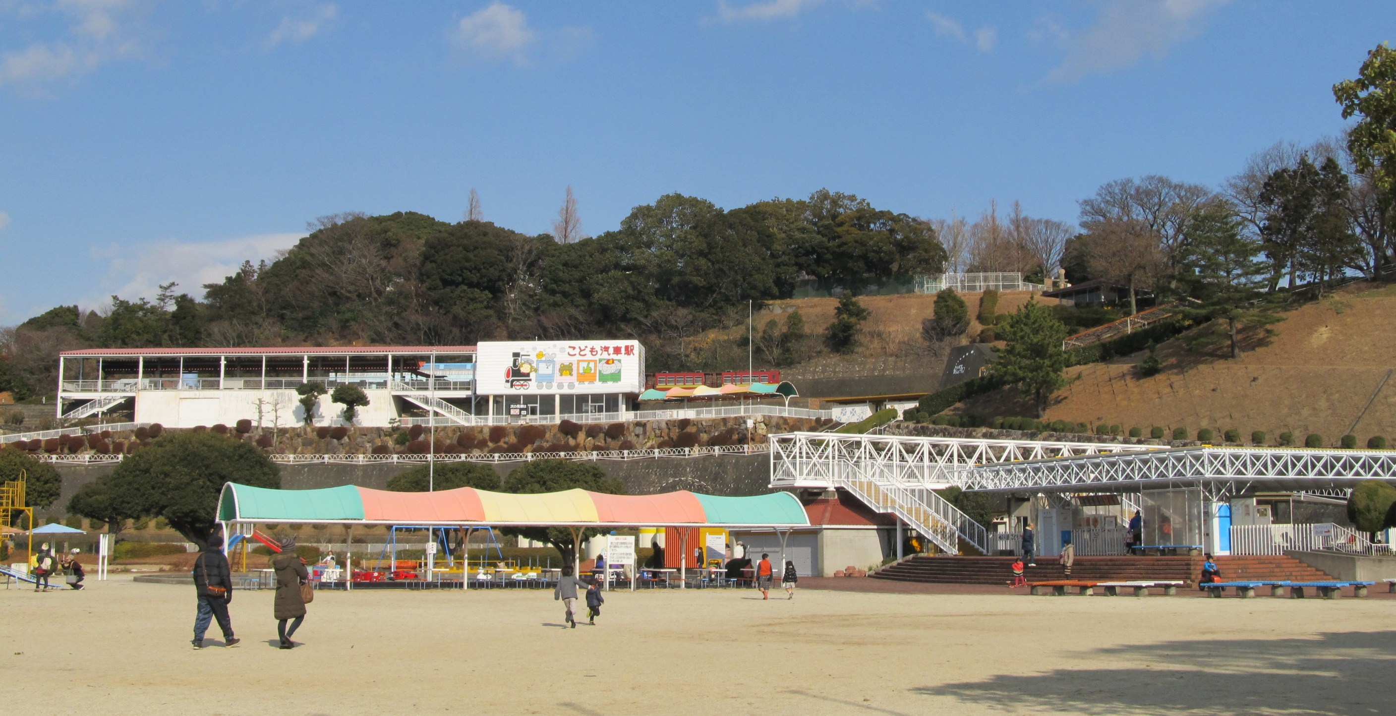 Aichi-Kodomonokuni Yūhigaoka, Community Zone, Free area.